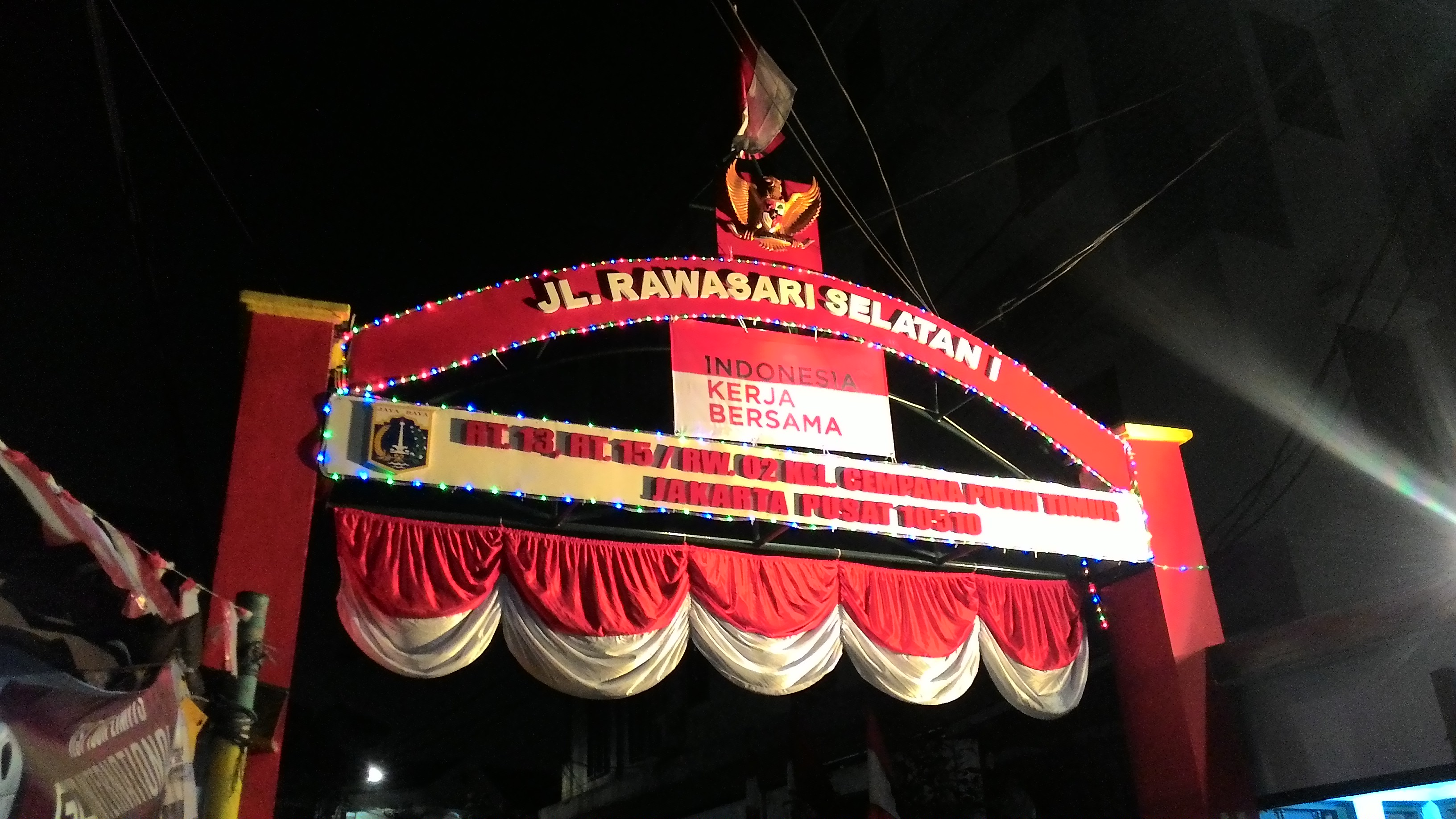 Decoration commemorating Indonesian Independence Day